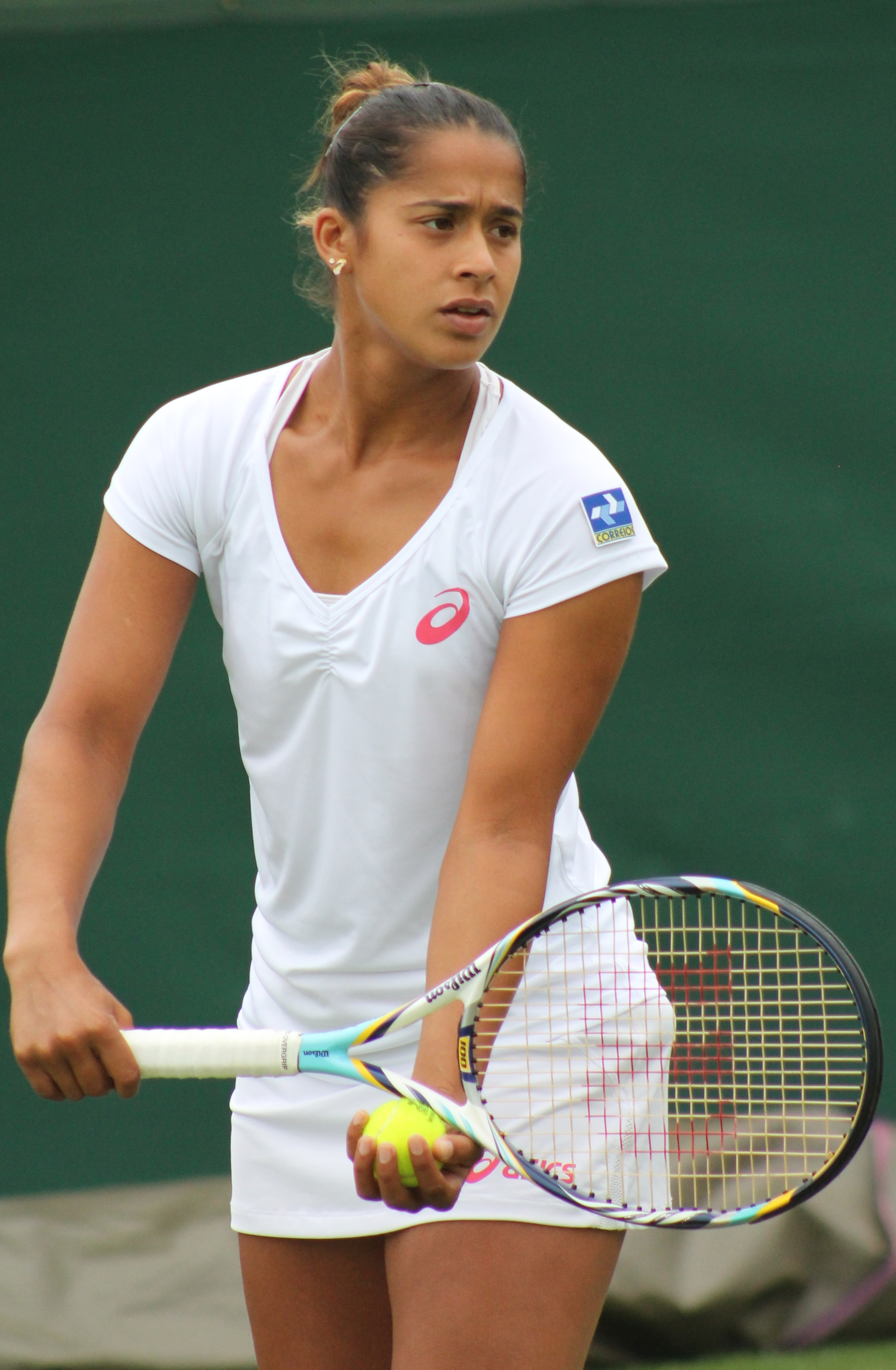 Teliana Pereira 2013 Wimbledon Qualifying Tournament